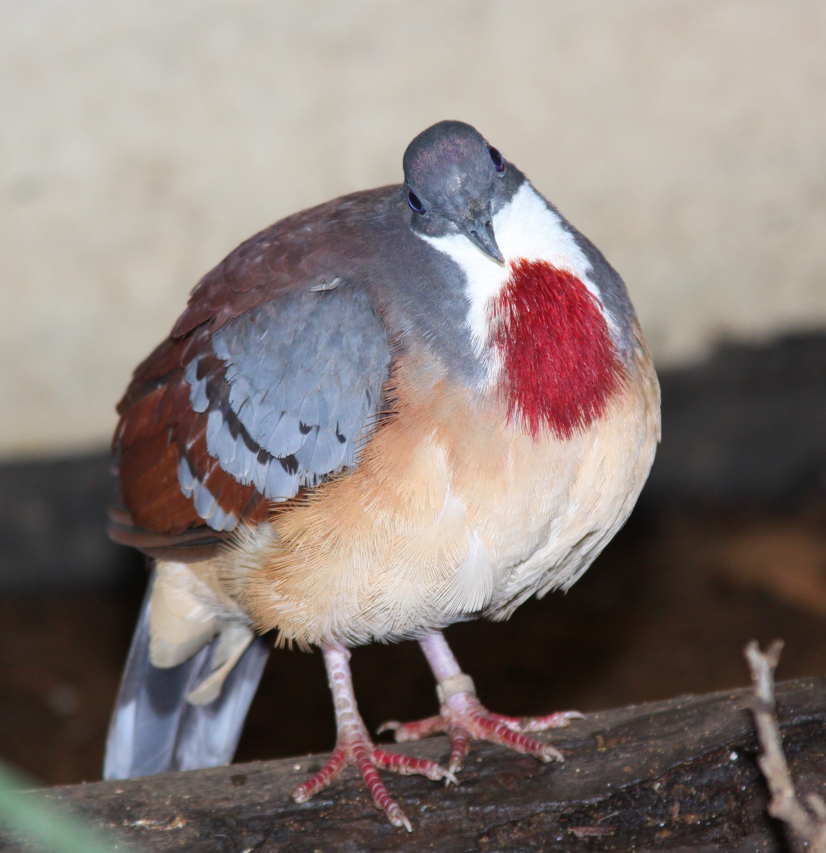 A Mindanao Bleeding-heart at London Zoo, England.